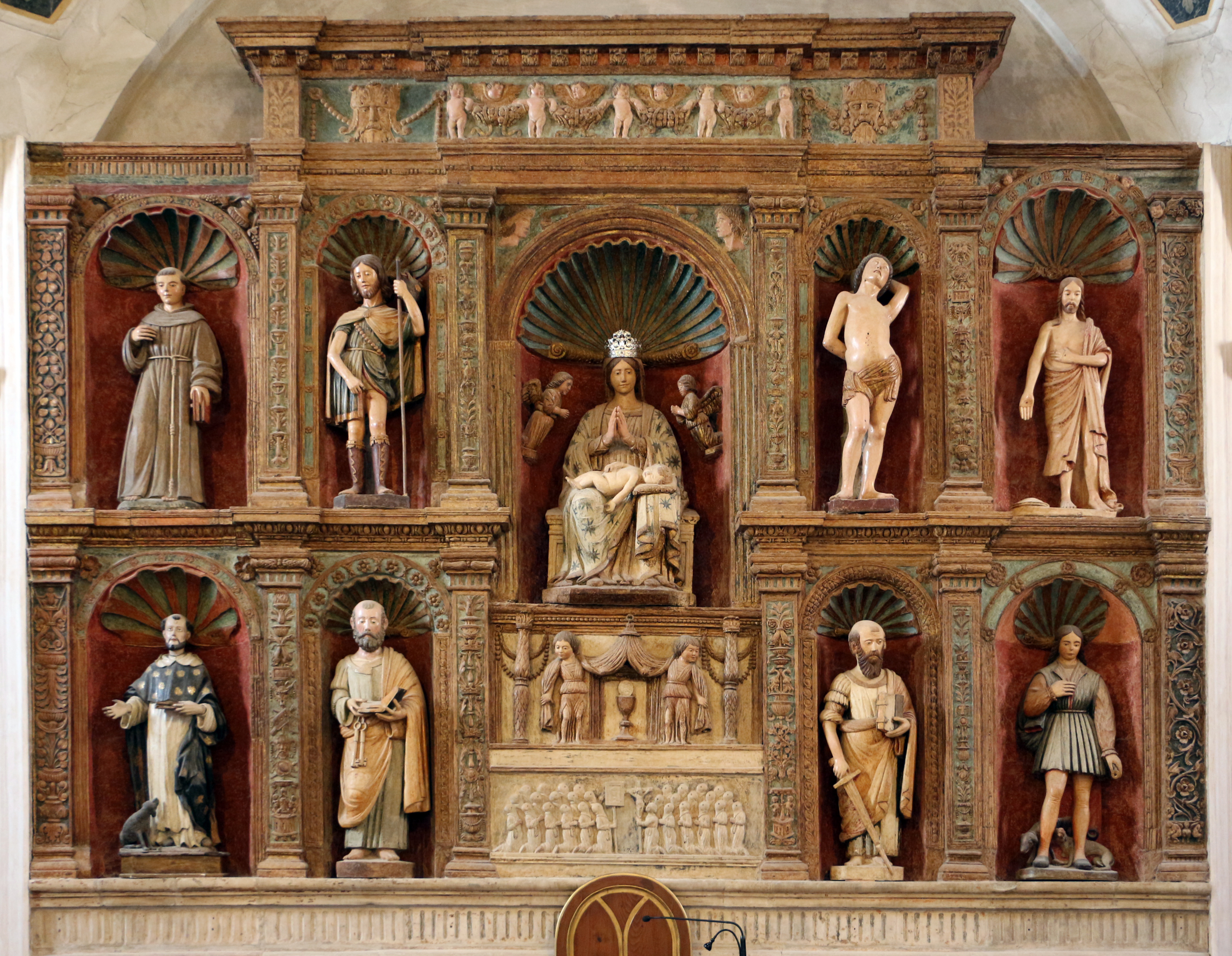 Chiesa Madre (Noci)